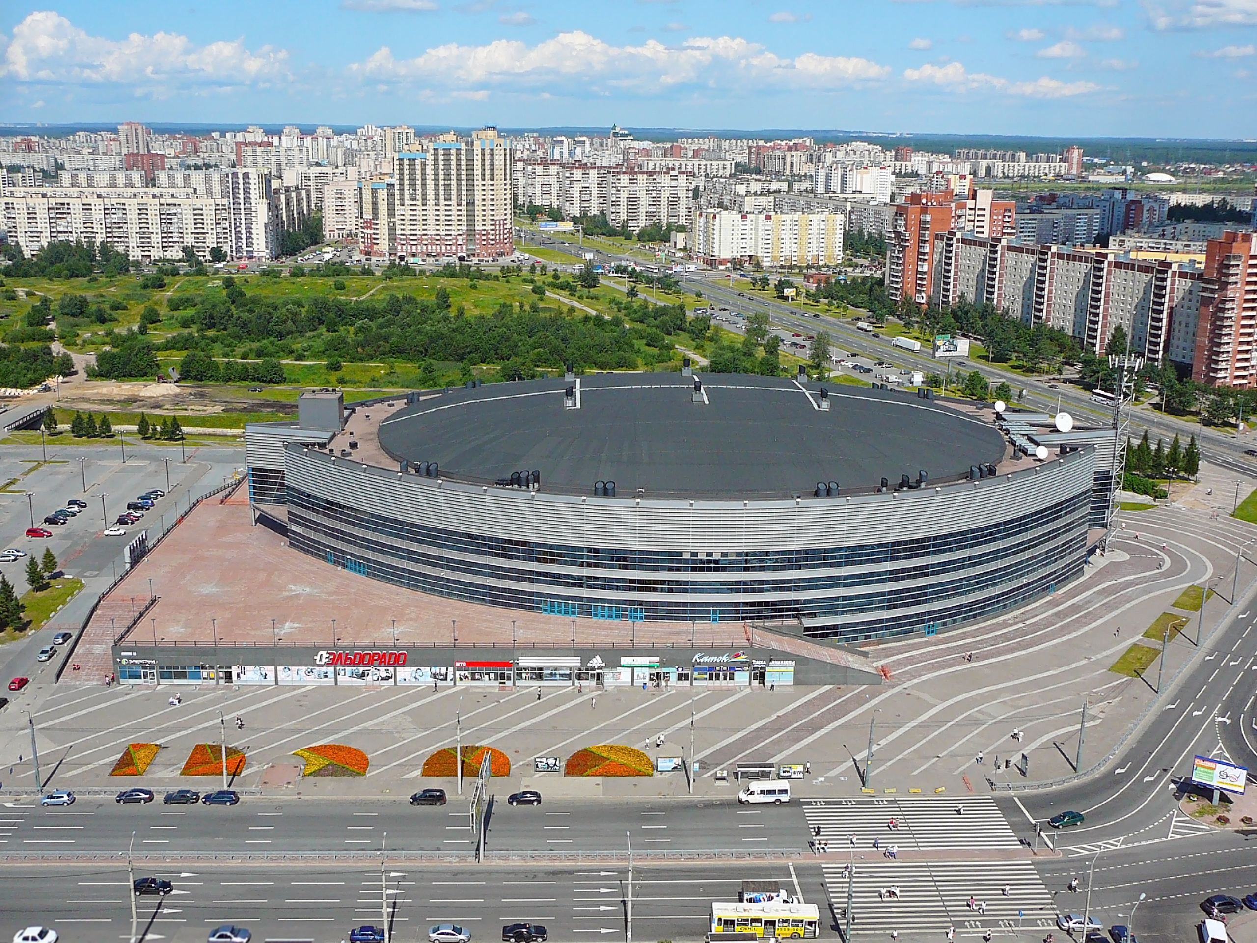 Ice Palace is an arena in Saint Petersburg, Russia.